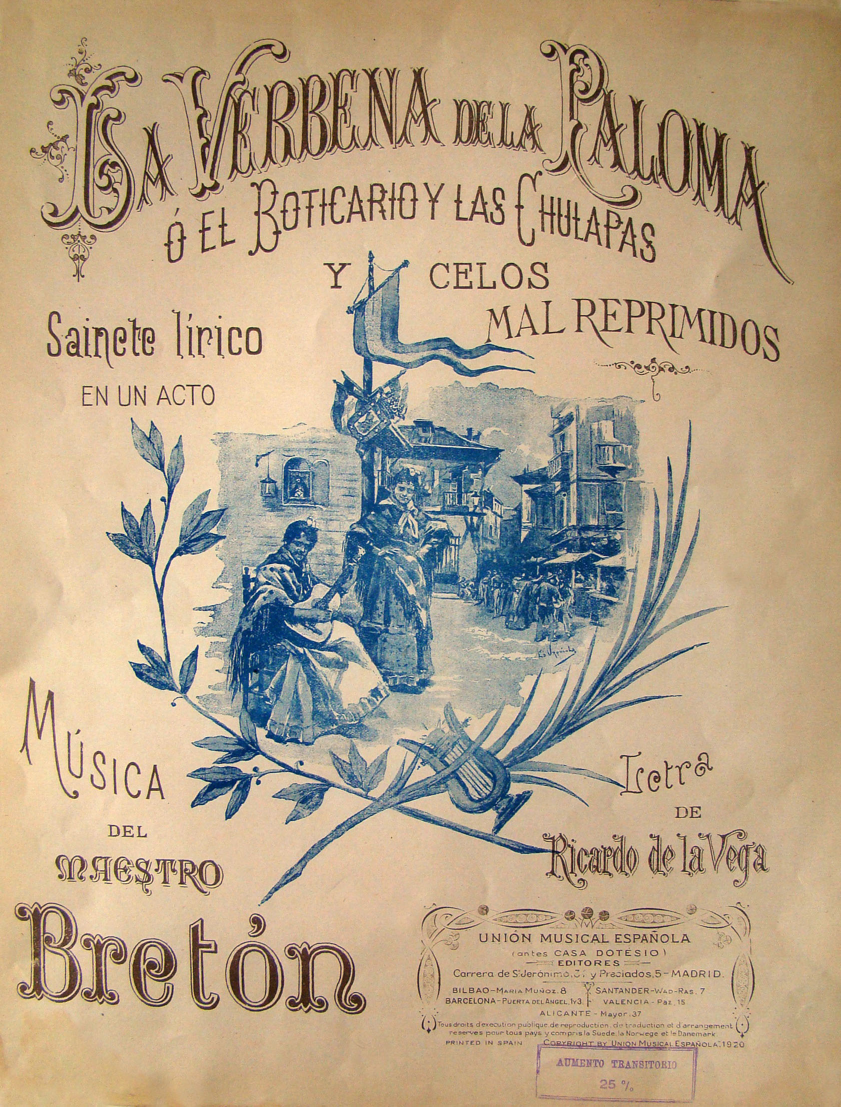 Front cover and poster for the function of the premiere of 'La verbena de la Paloma' at the Apollo Theatre, on February 17, 1894. (Formerly House Dotesio).